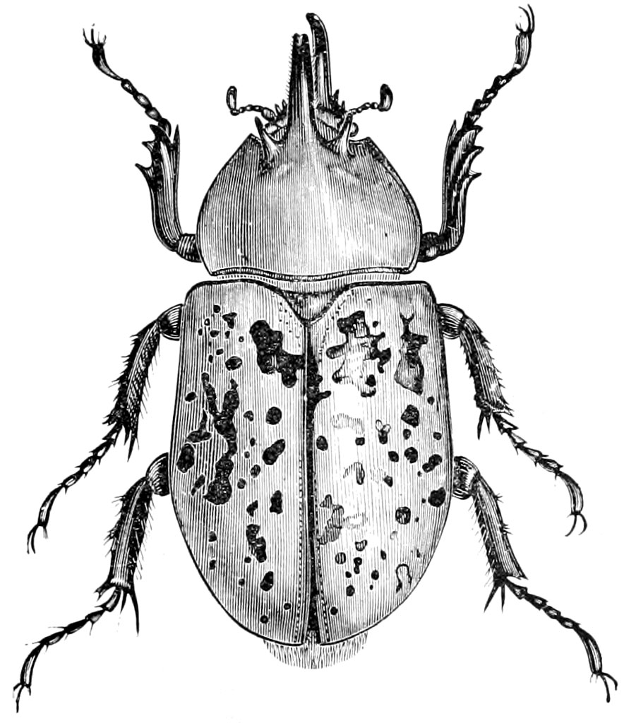 Hercules Beetle, Dynastes tityus, male, engraving/woodcut